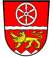 Coat of Arms of Blankenbach